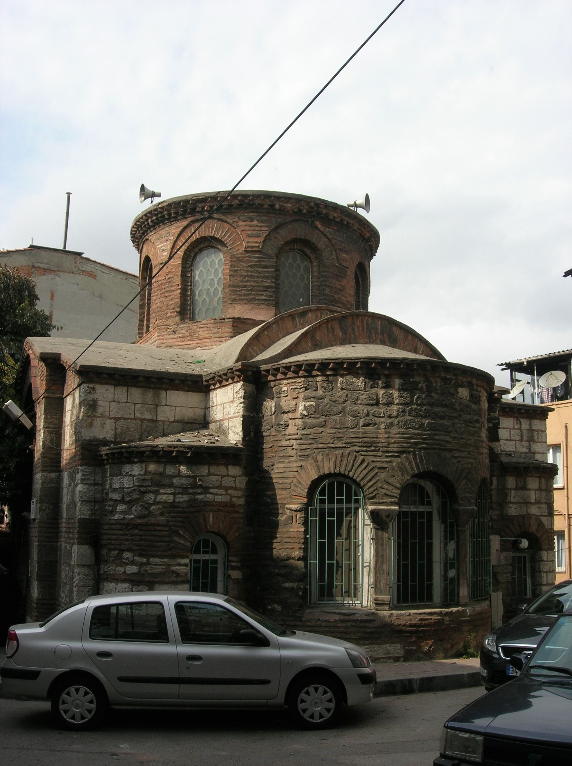 The Apsis of the Mosque of Hirami Amhet Pasa ( former Church of the St. John the Baptist en to Troullo) in Istanbul viewed from NE